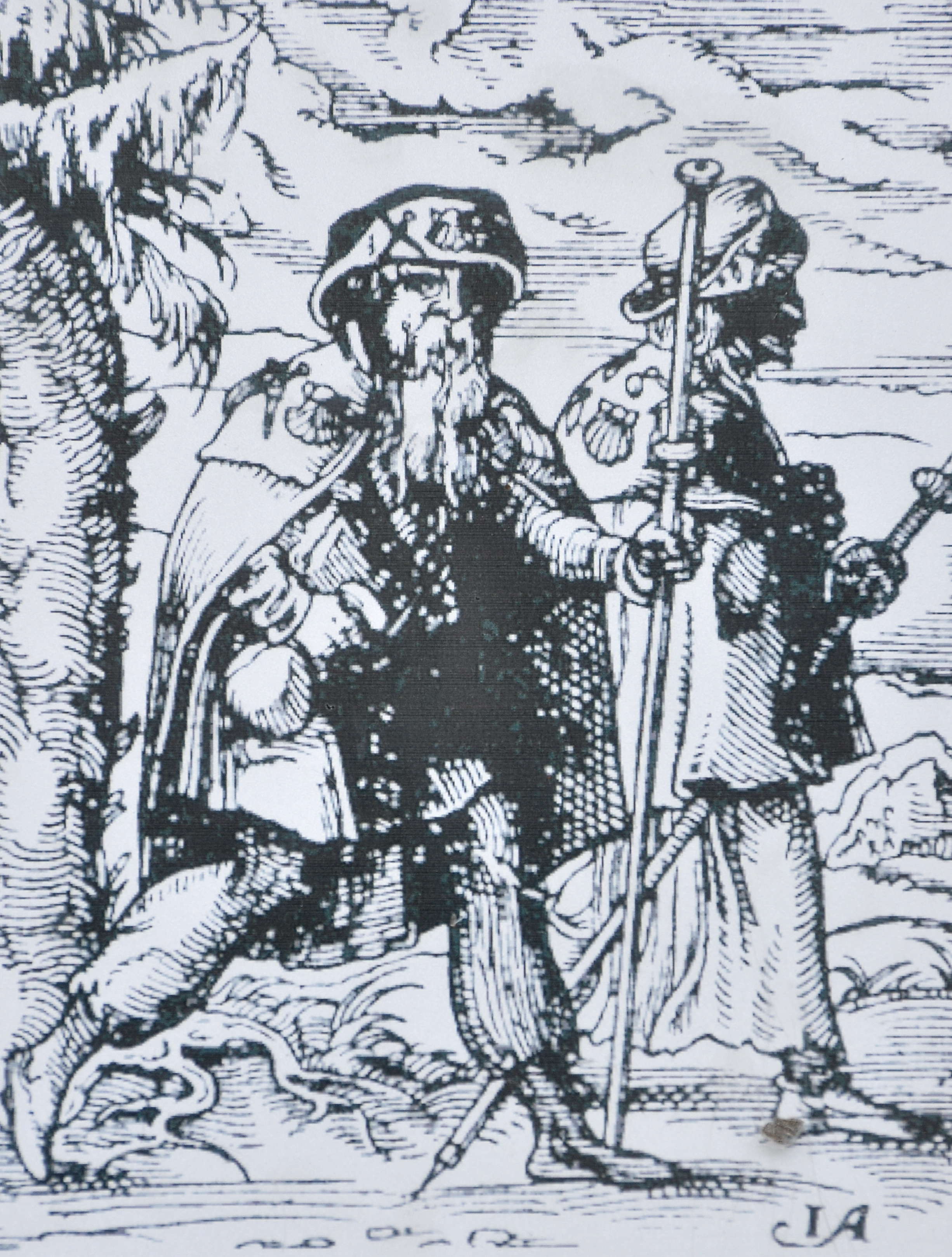 Pilgrim on the Way of St. James (Jakobsweg)